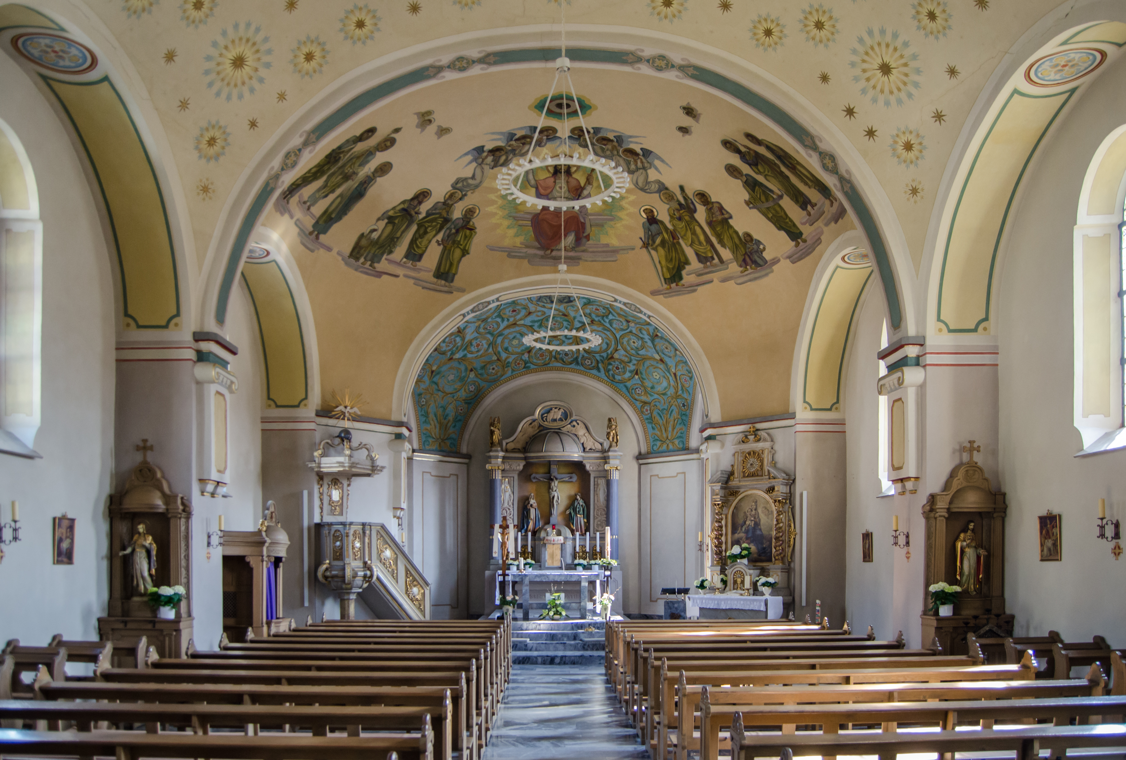 Olsberg (North Rhine-Westphalia, Germany) – district Wiemeringhausen – Catholic Saint Anthony Church – interior towards the choir